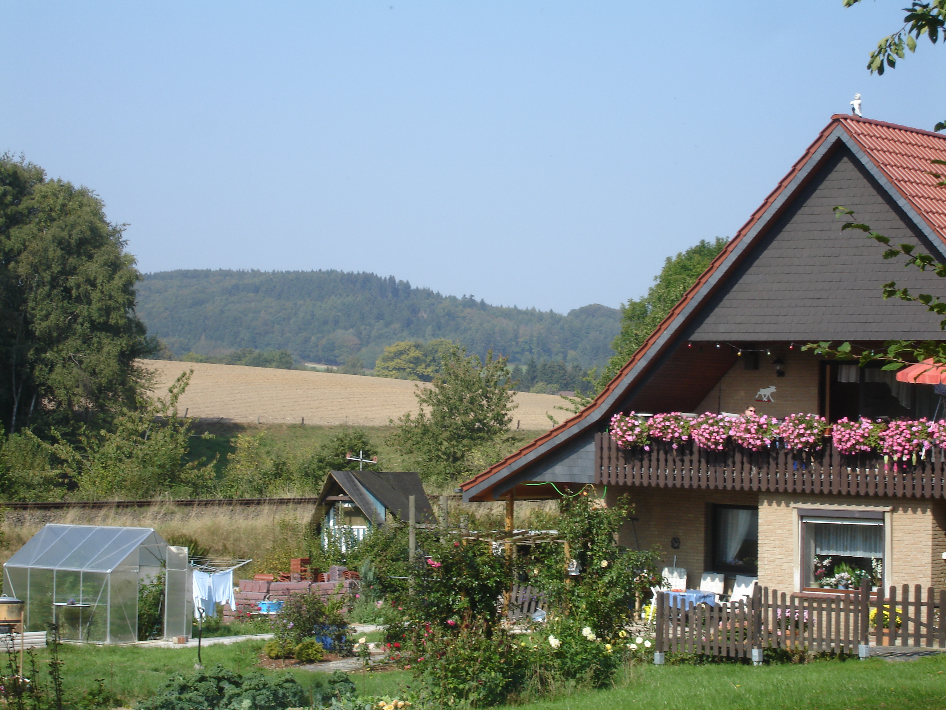 In the Wiehengebirge near Rödinghausen. Blick auf den Maschberg von Bieren aus. Im Vordergurnd die Ravensberger Bahn kurz vor dem Haltepunkt Neue Mühle.